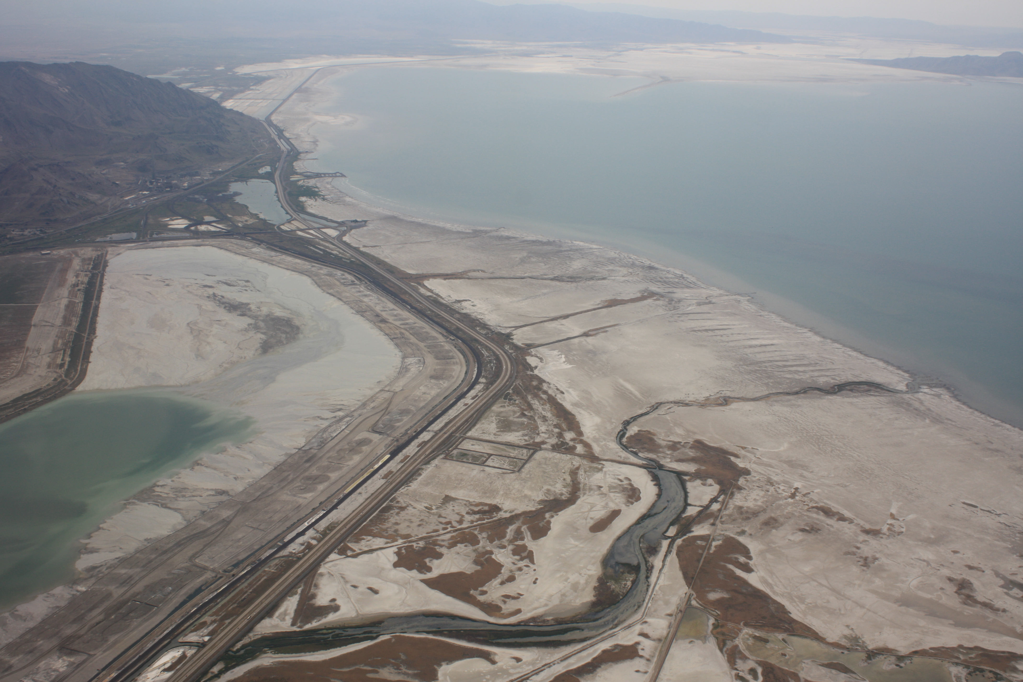 An aerial view of Interstate 80 and the Great Salt Lake, taken on my return flight from Seattle to Albuquerque (via SLC).